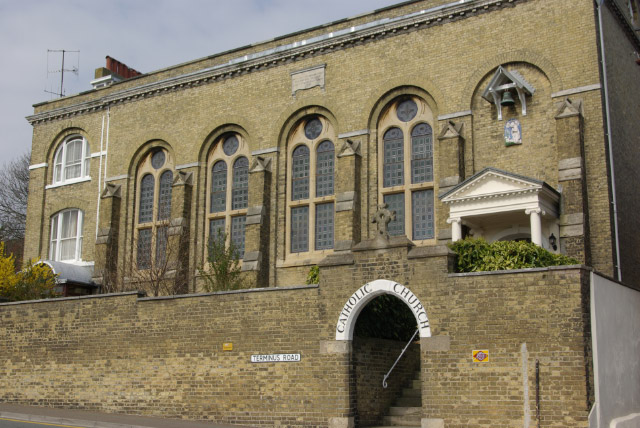 Cowes Roman Catholic Church This church has an unusual archway entrance from the street - not ideal for elderly or disabled members of the congregation. Note that the presbytery is part of the church building. The name of the street is a reminder that Cowes station was once nearby.